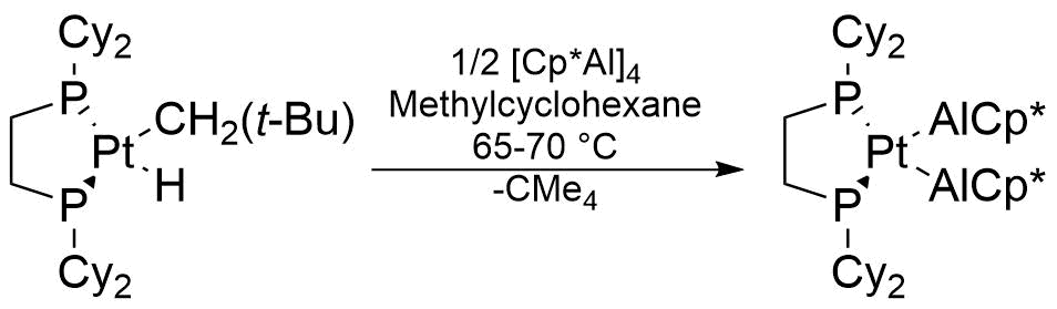 (Pentamethylcyclopentadienyl)aluminium(I) reacting as a ligand